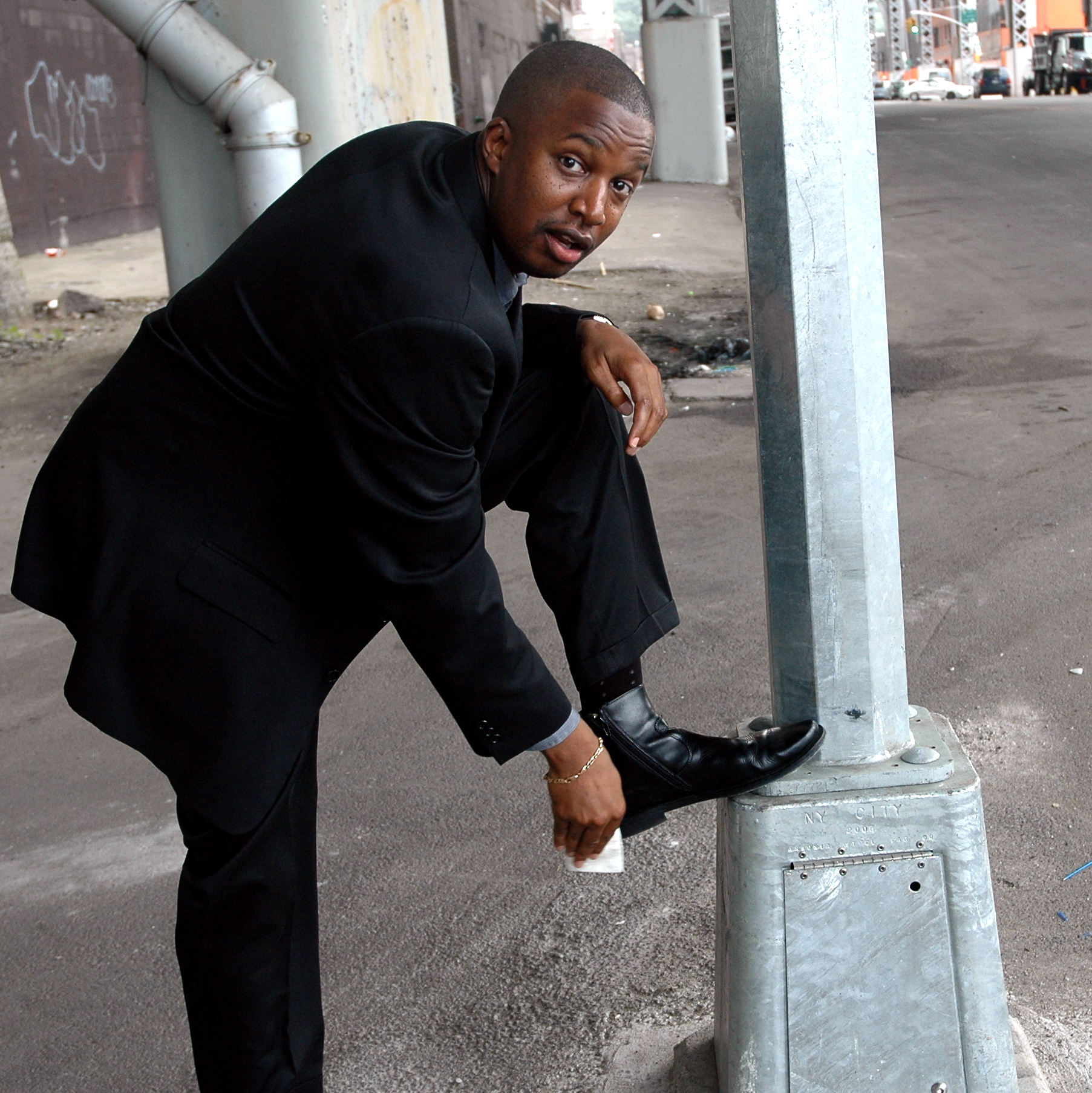 Rick Younger, 2005